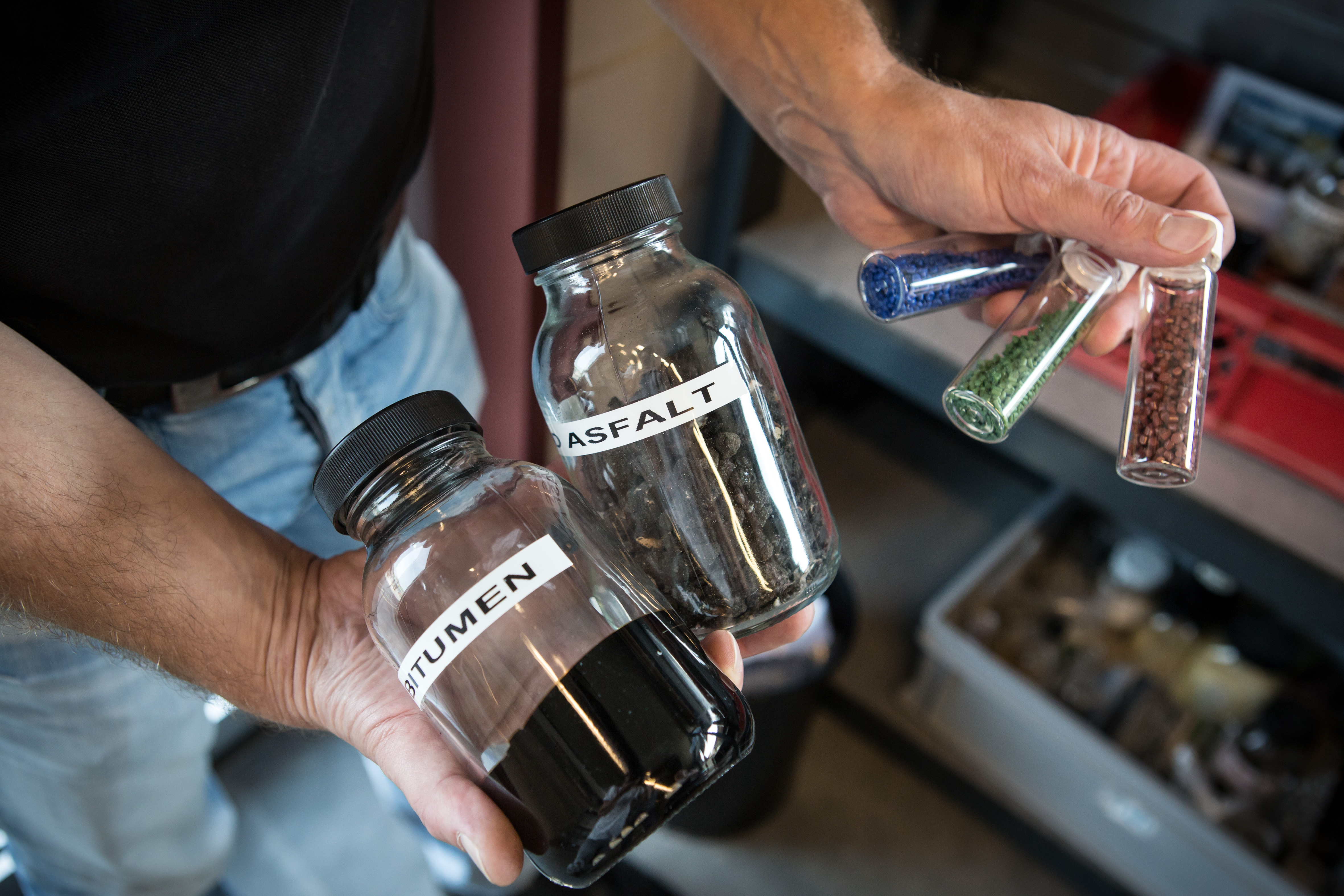 Rechts op de afbeelding diverse pigmenten die gebruikt kunnen worden om gekleurd asfalt te produceren To the right of the image, you see different colouring agents which can be used to produce asphalt concrete in different colours